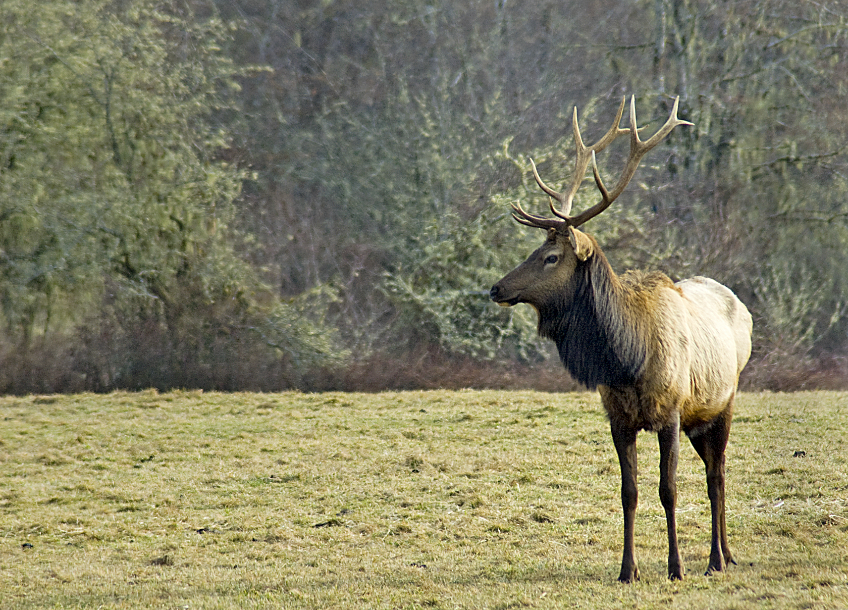 A Roosevelt bull elk keeps watch over his herd at the Jewell Meadows Wildlife Area.